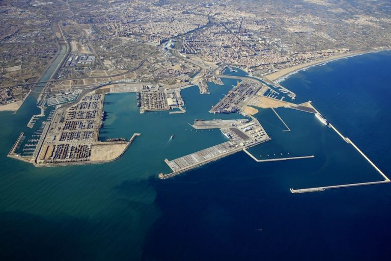 Port of Valencia